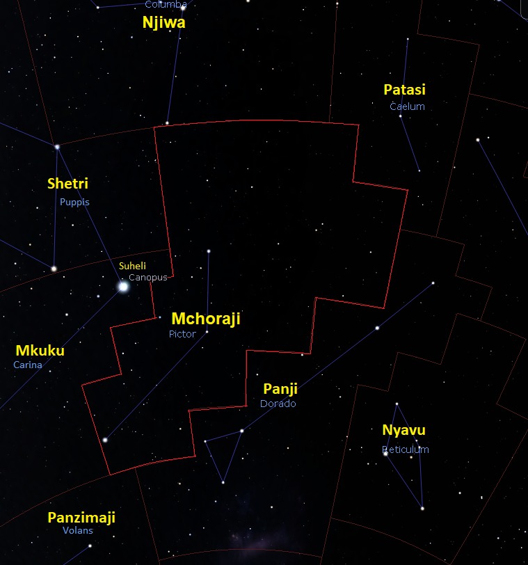 Constellation Norma as seen from Tanzania, Swahili labelled Kiswahili: Kundinyota Mchoraji (Pictor) jinsi inavyoonekana kutoka Tanzania, majina kwa Kiswahili